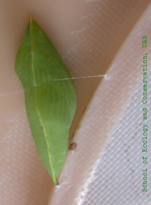 Catopsilia pyranthe pupa